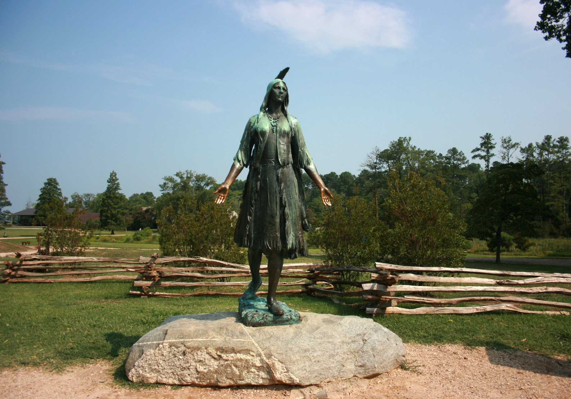 Photograph of the Pocahontas statue in Historic Jamestowne, Virginia, USA.